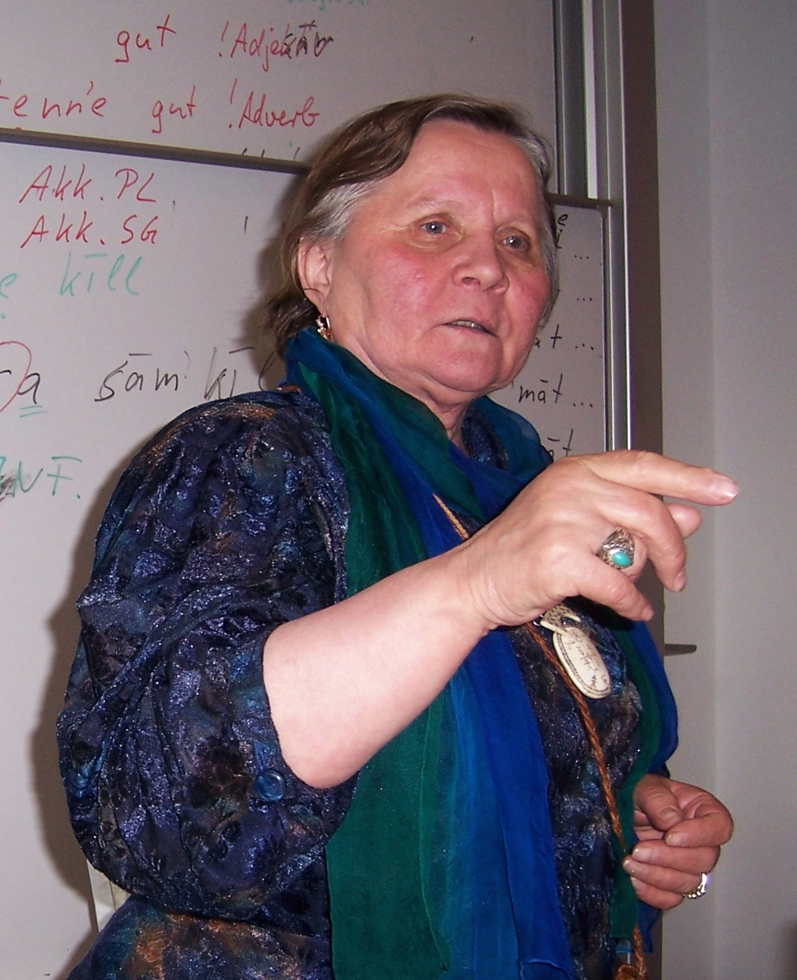 Nina Afanasyeva teaching Kildin Saami for university students (Nordeuropa-Institut der Humboldt-Universität zu Berlin)